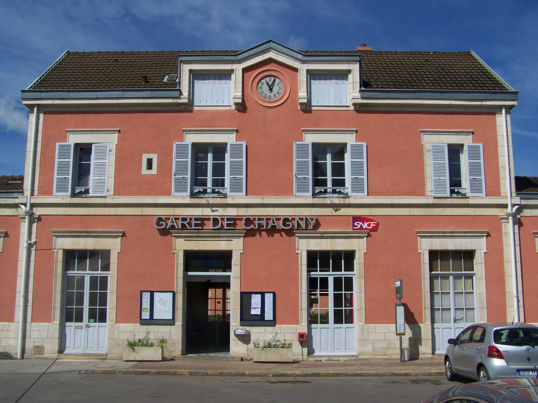 Facade of city of Chagny railway station, in Saône-et-Loire, France.